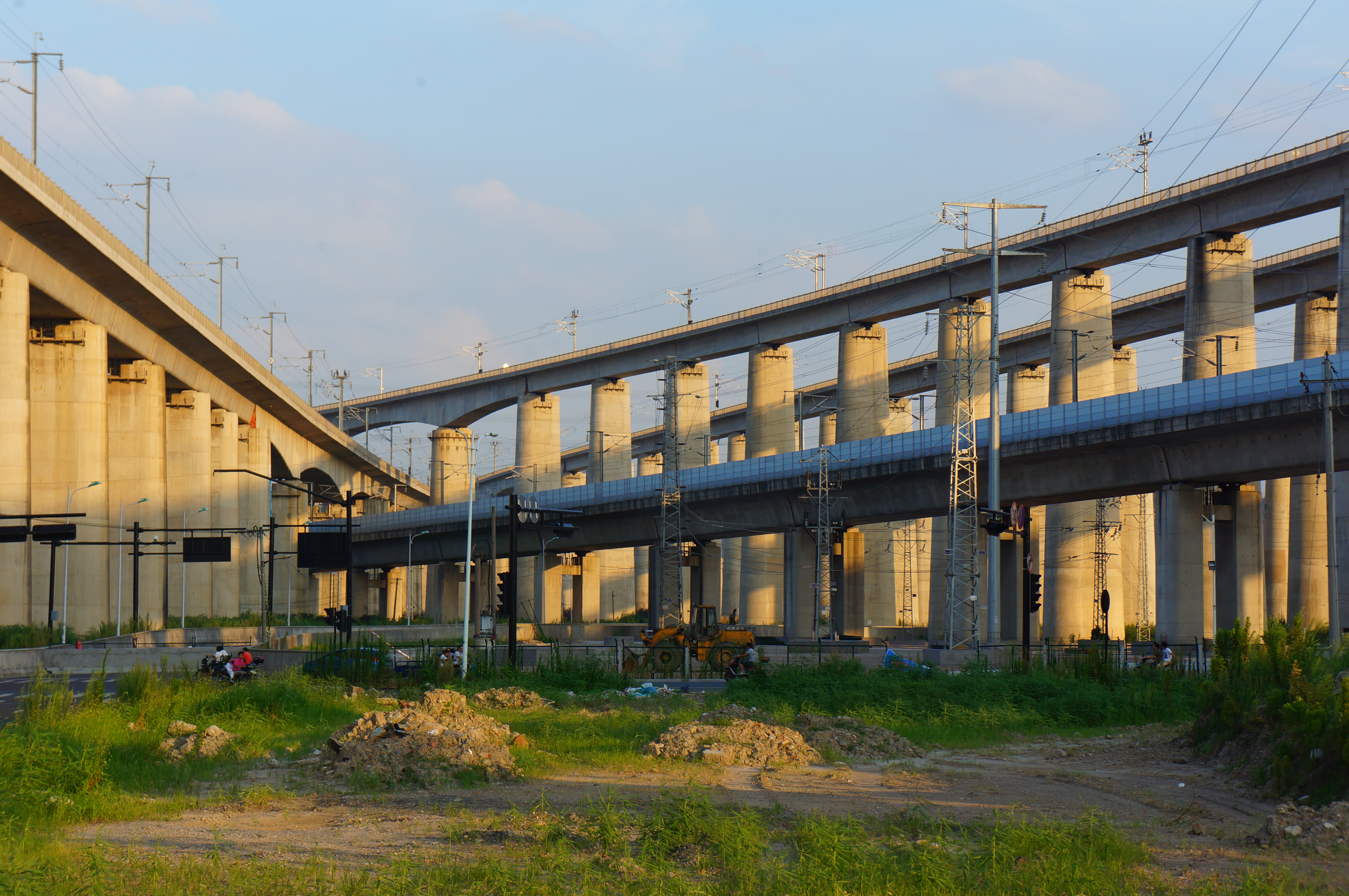 With Shanghai-Kunming on the left and Hangzhou-Shenzhen Line traverse beneath